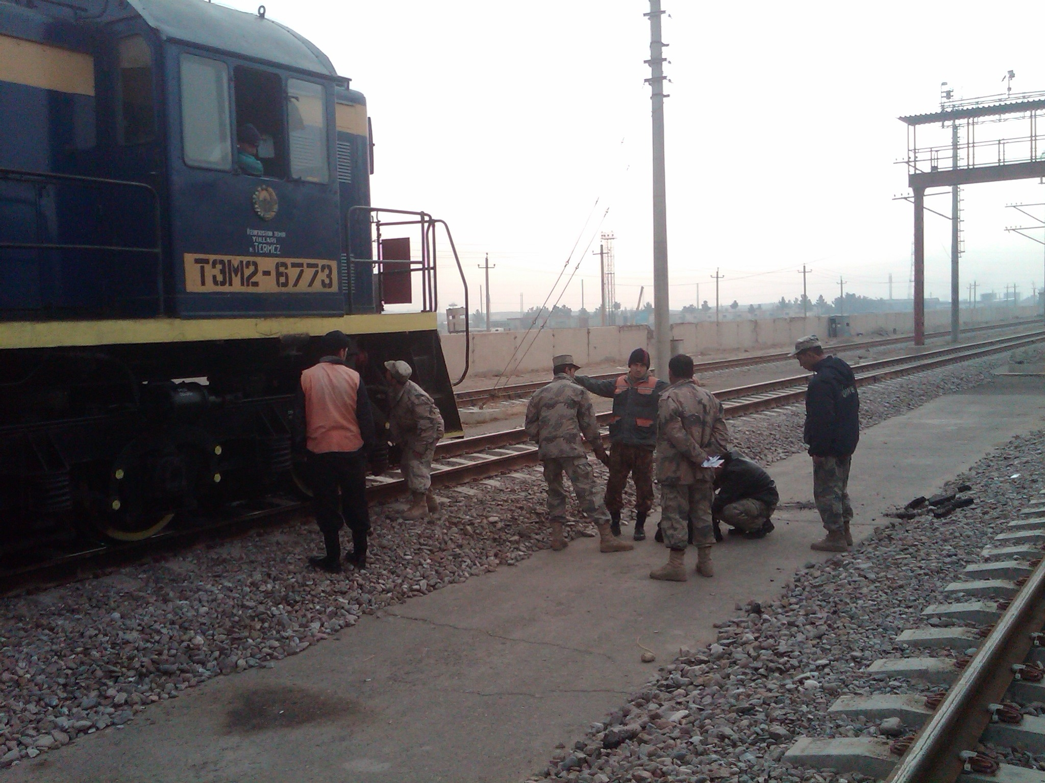 Members of the ANBP listen to the instructor as they search a locomotive near the Hairatan border crossing point. (Photo ID: 358102)